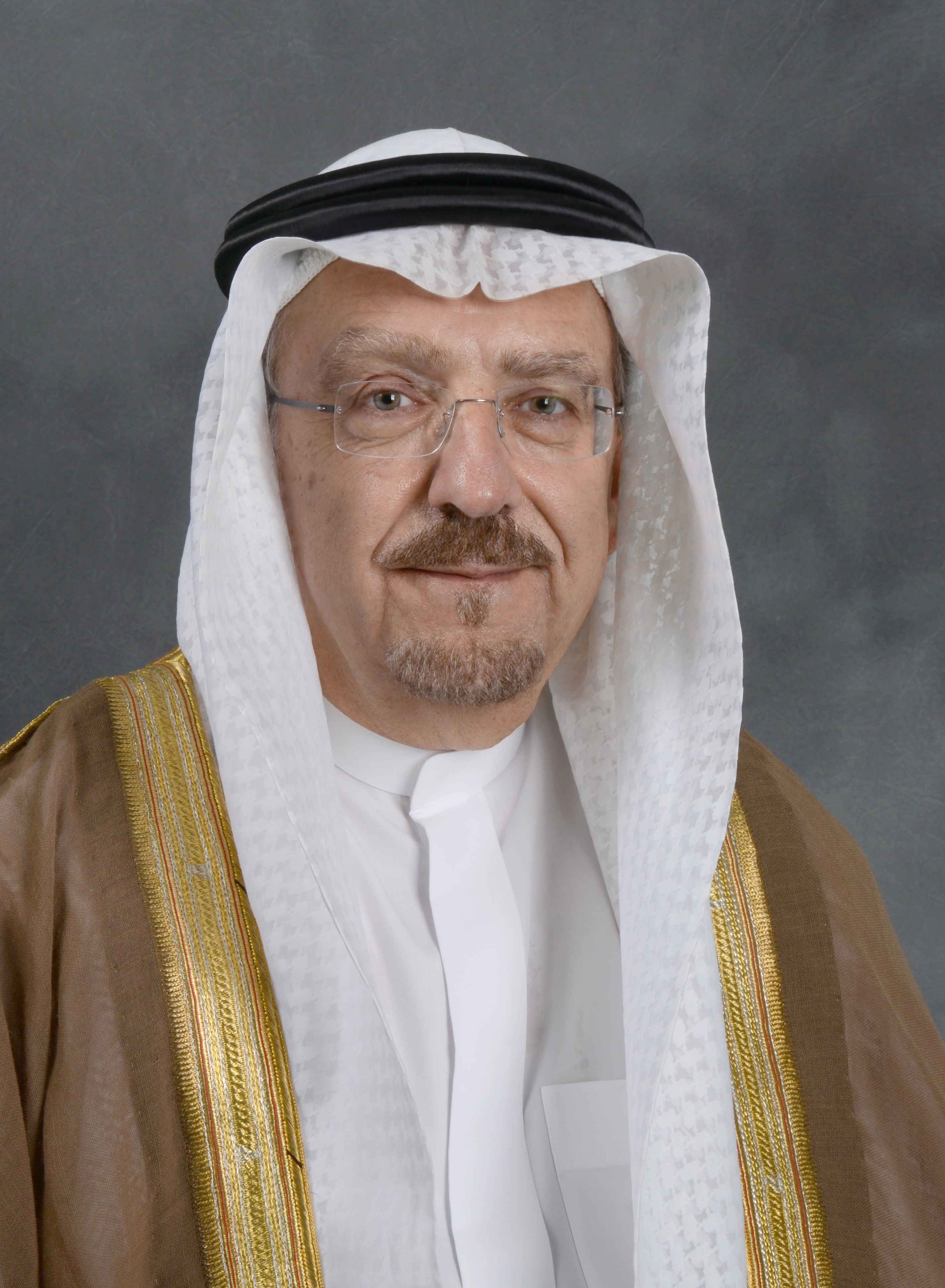 Traditional